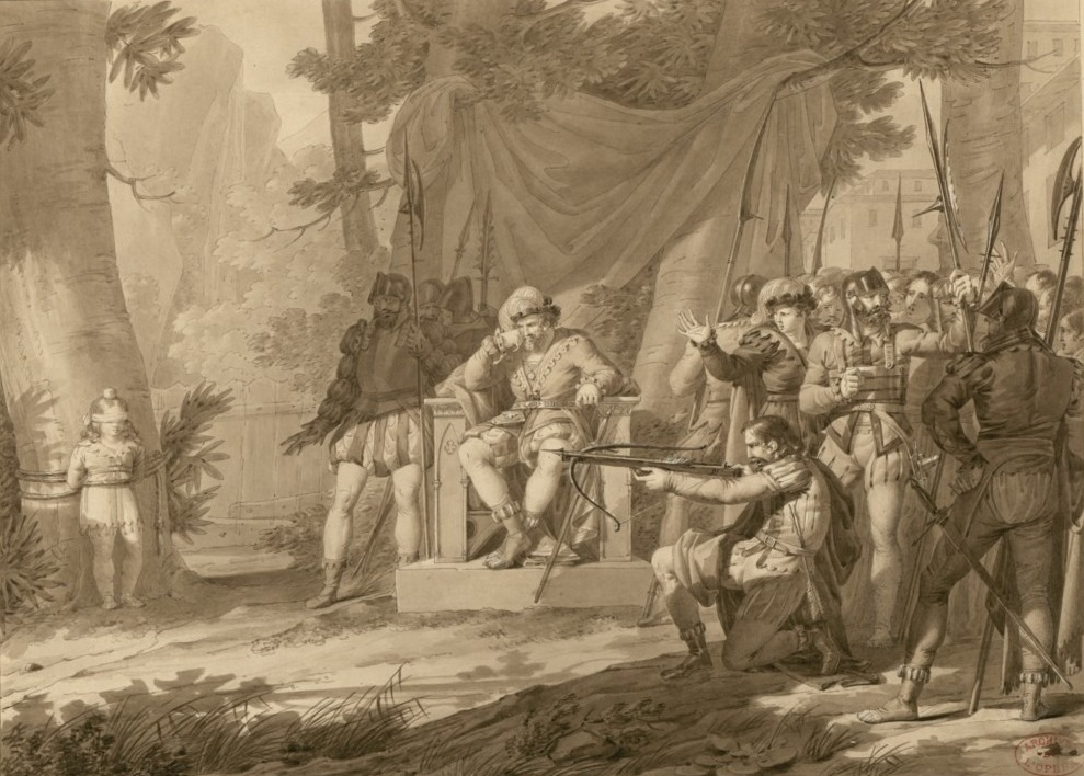 Gioachino Rossini - Guillaume Tell - Charles-Abraham Chasselat - dessin préparatoire à la gravure 3